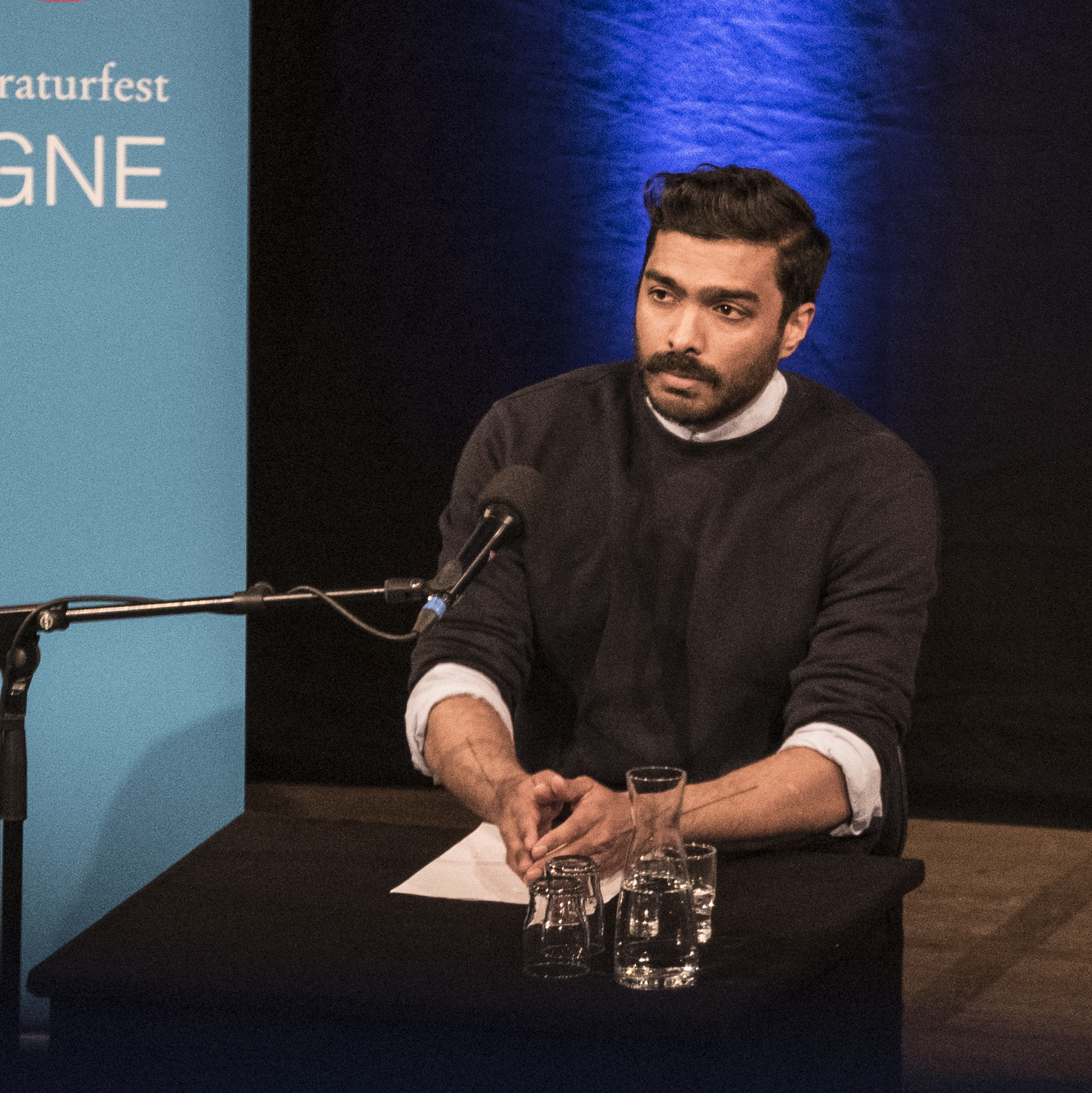 Senthuran Varatharajah, german writer